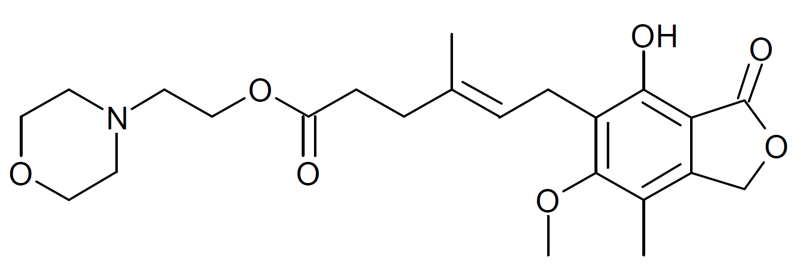 Structure of mycophenolate mofetil